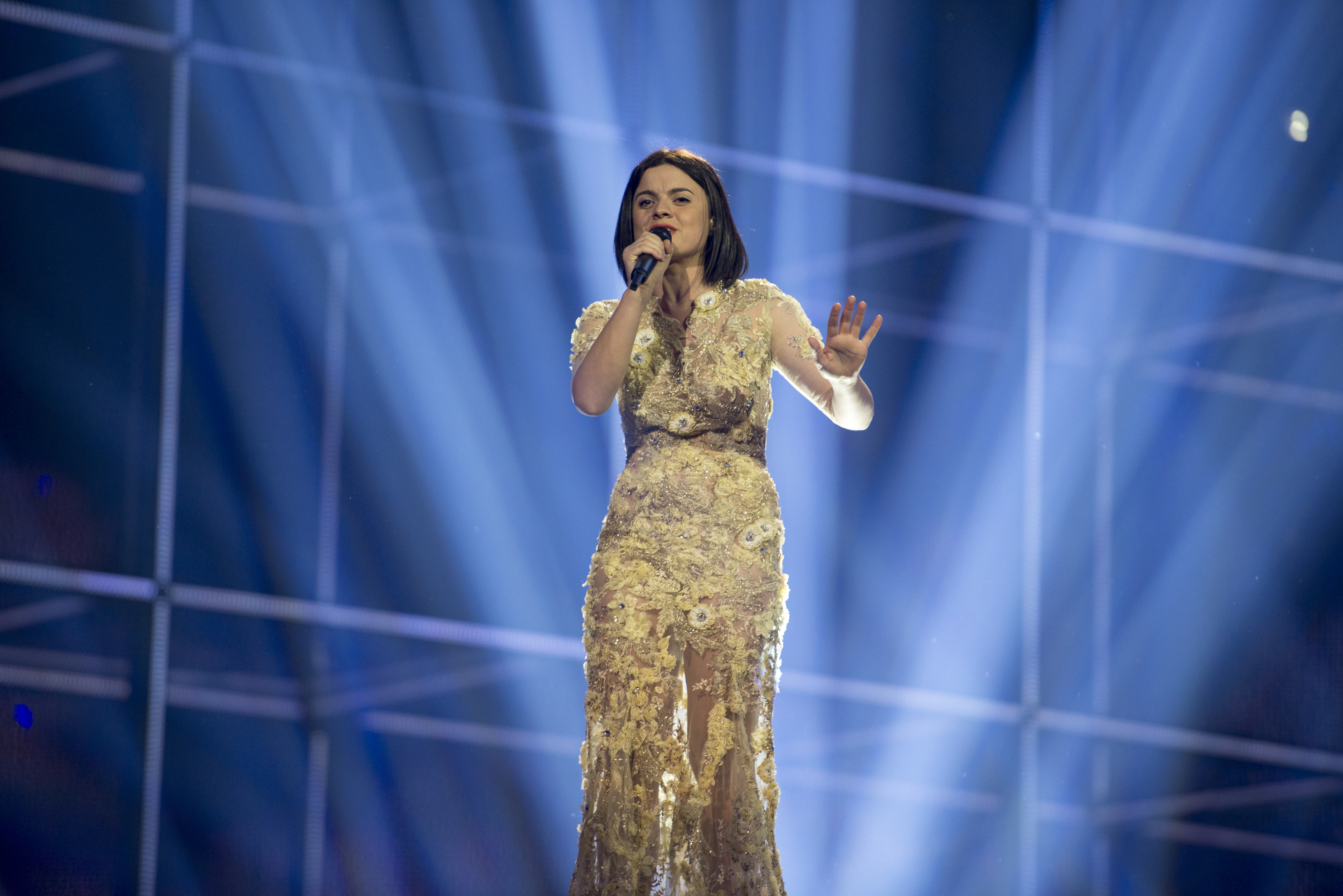 Herciana Matmuja representing Albania with the song "One Night's Anger" during the first dress rehearsal of the first semi final of the Eurovision Song Contest 2014 Copenhagen. (Help translate this text)